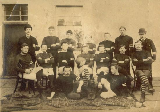 Rhymney Rugby Football Club during the 1887-1888 season. team known as the 'Stars'. The player sat on the ground to the right is sporting a skull and crossbones on his jersey.